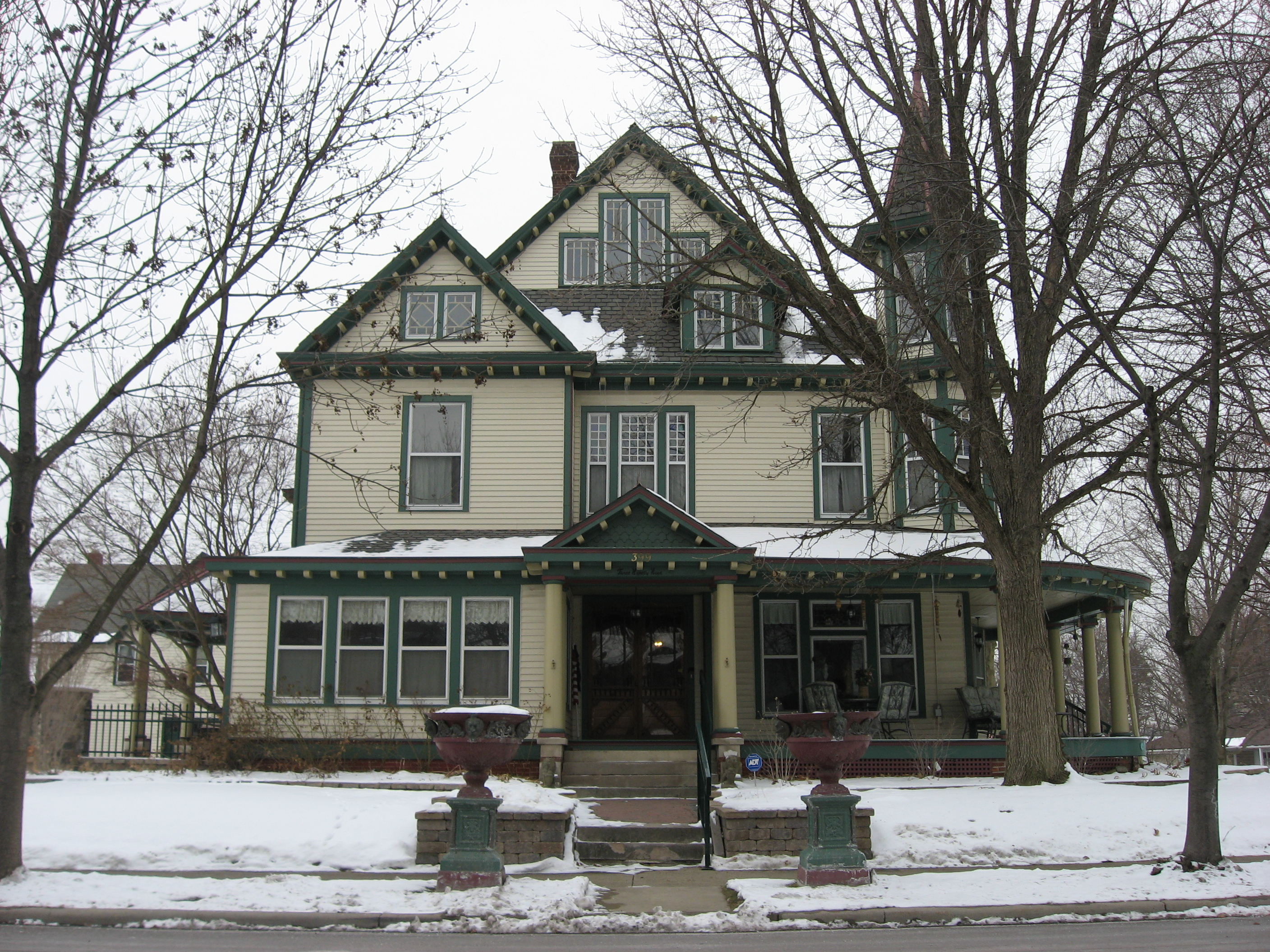 Front of the Dr. Samuel Harrell House, located at 399 N. Tenth Street in Noblesville, Indiana, United States. Built in 1898, it is listed on the National Register of Historic Places, and it is part of a Register-listed historic district, the Catherine Street Historic District.